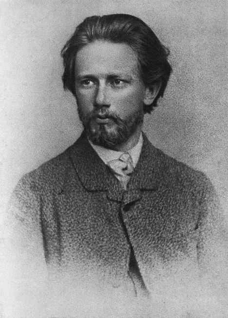 Russian composer Pyotr Ilyich Tchaikovsky (1840–1893) as a young man – Picture from 1863-1864.